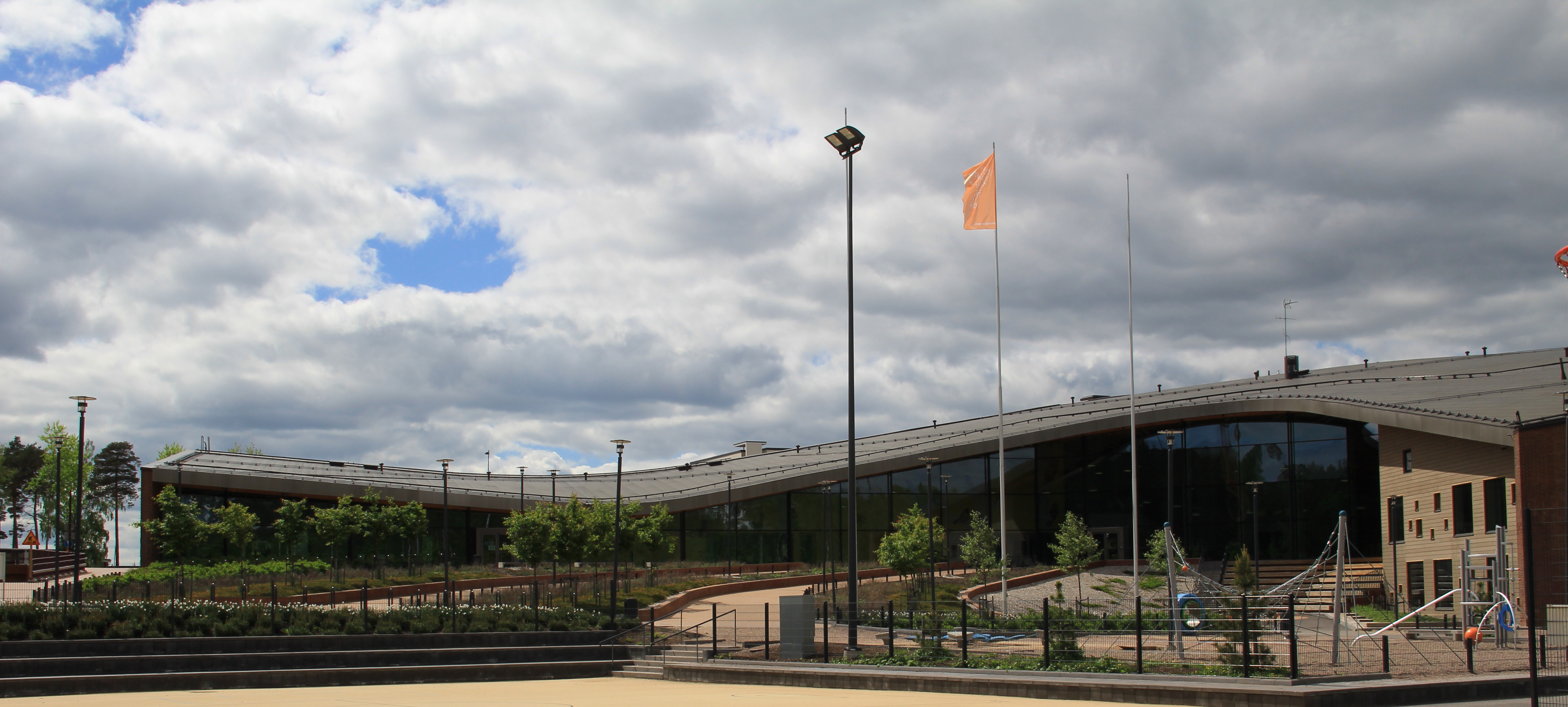 Saunalahti school, Saunalahti district, Espoo, Finland. Completed in 2012. School designed by Verstas Architects Ltd, landscaping designed by LOCI Maisema-Arkkitehdit Oy. General view.